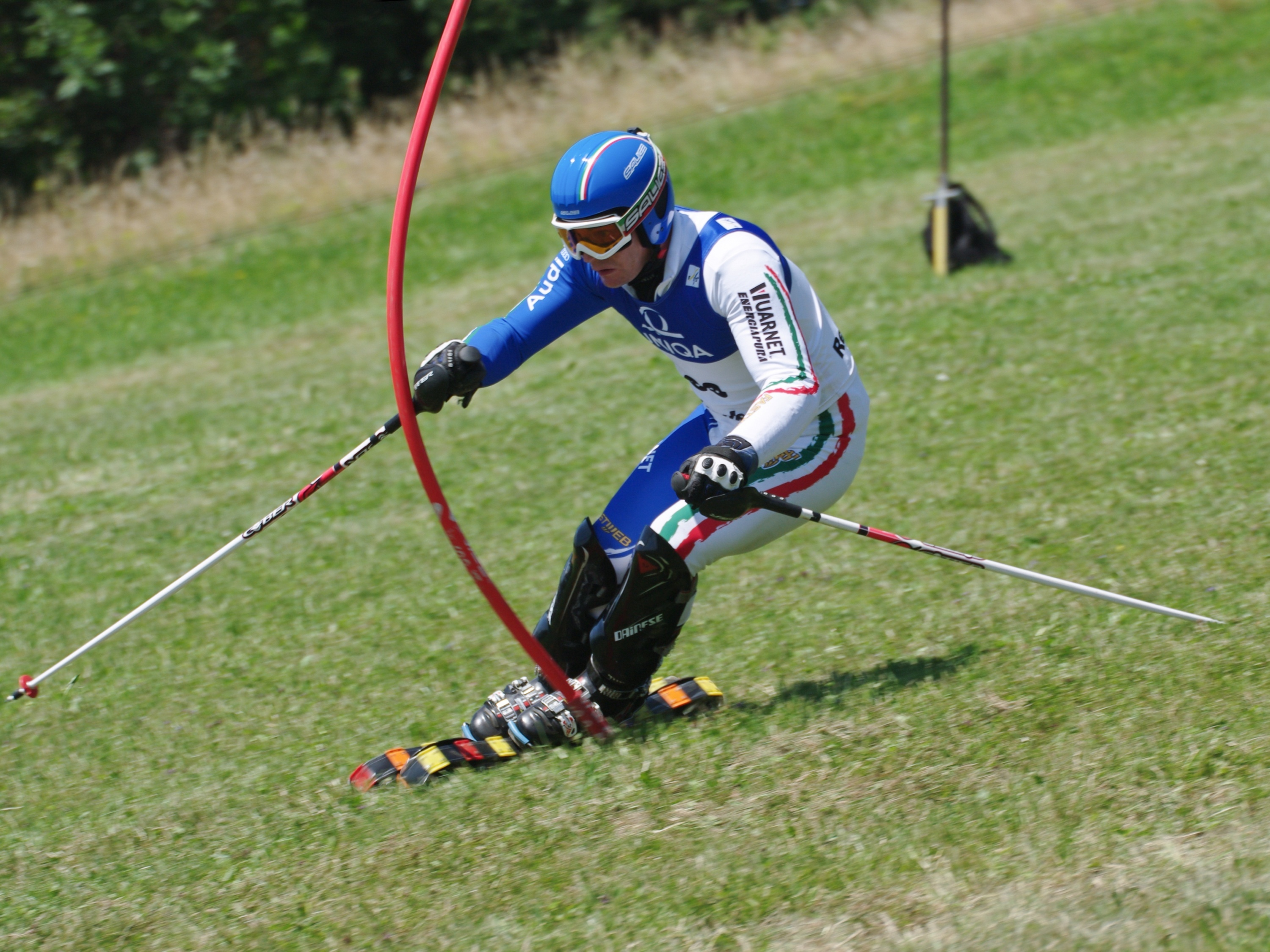 Italian Grass skier Andrea Notaris in the Slalom run of the FIS Supercombined in Rettenbach on 10 July 2011.